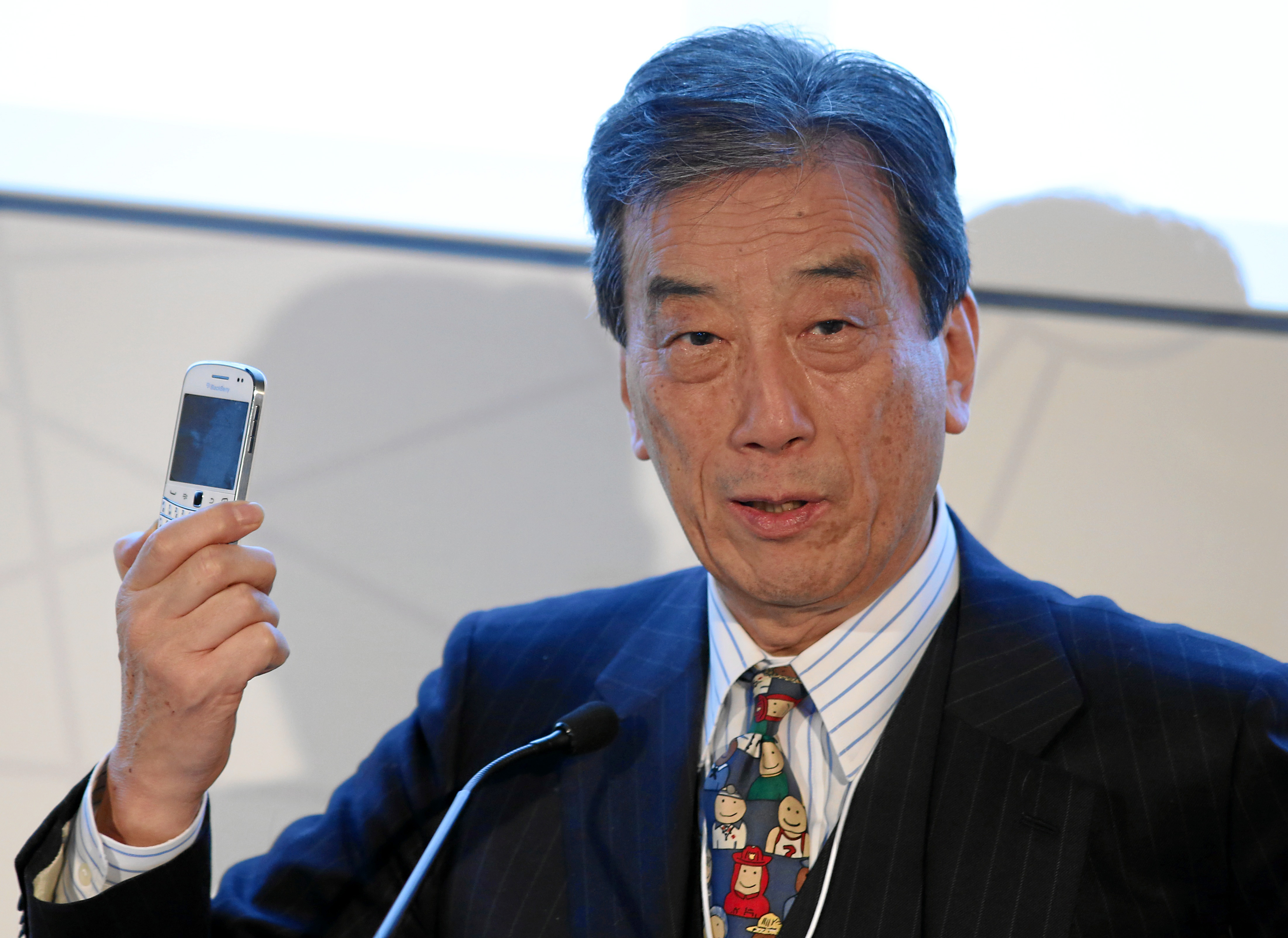 Kiyoshi Kurokawa, Academic Fellow of the National Graduate Institute for Policy Studies, spoke about the "Catastrophic Risks in the 21st Century" at the Annual Meeting of the World Economic Forum in Davos Municipality, Graubünden Canton on January 24, 2013.